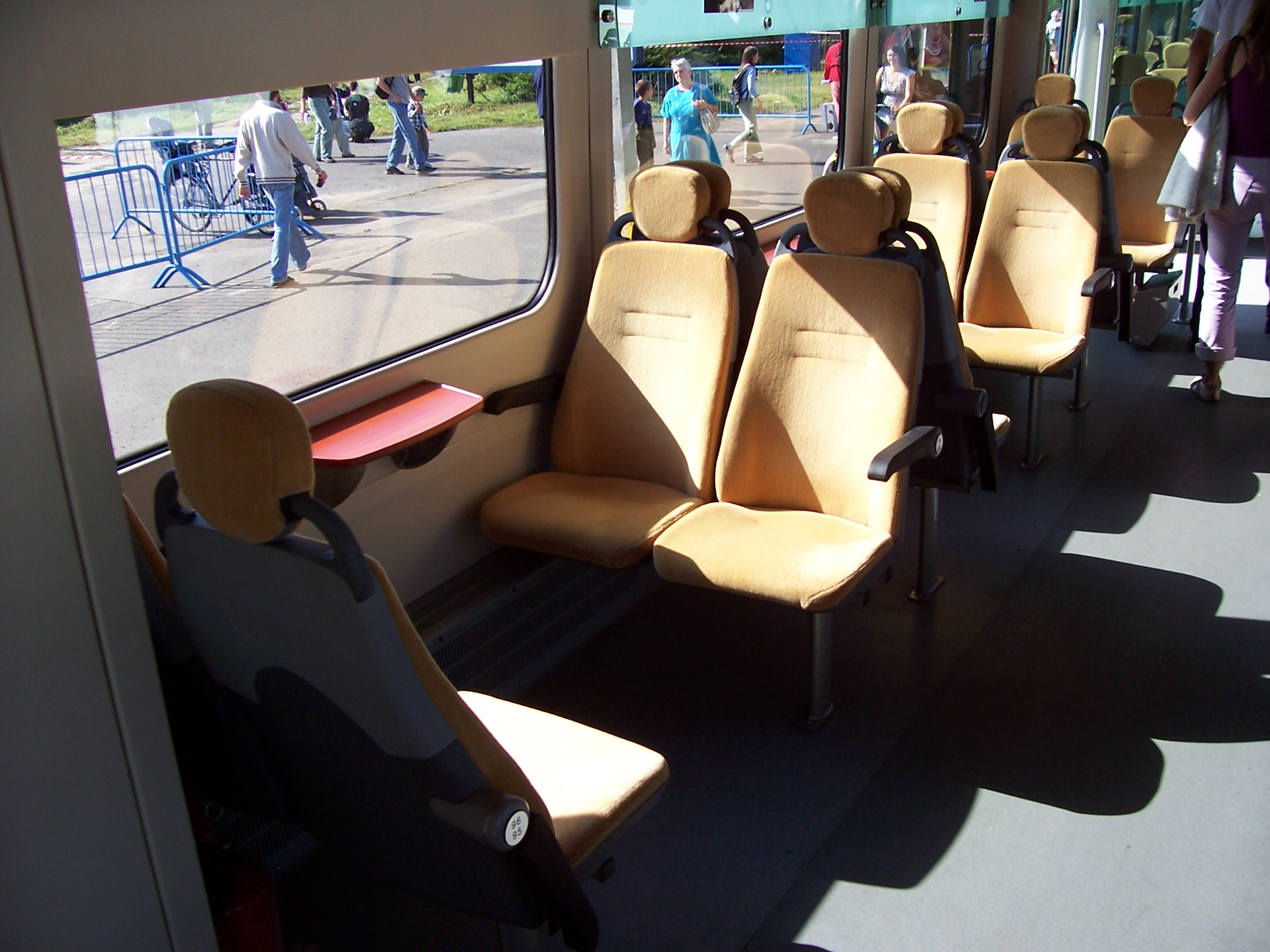 EN61-01 interior.